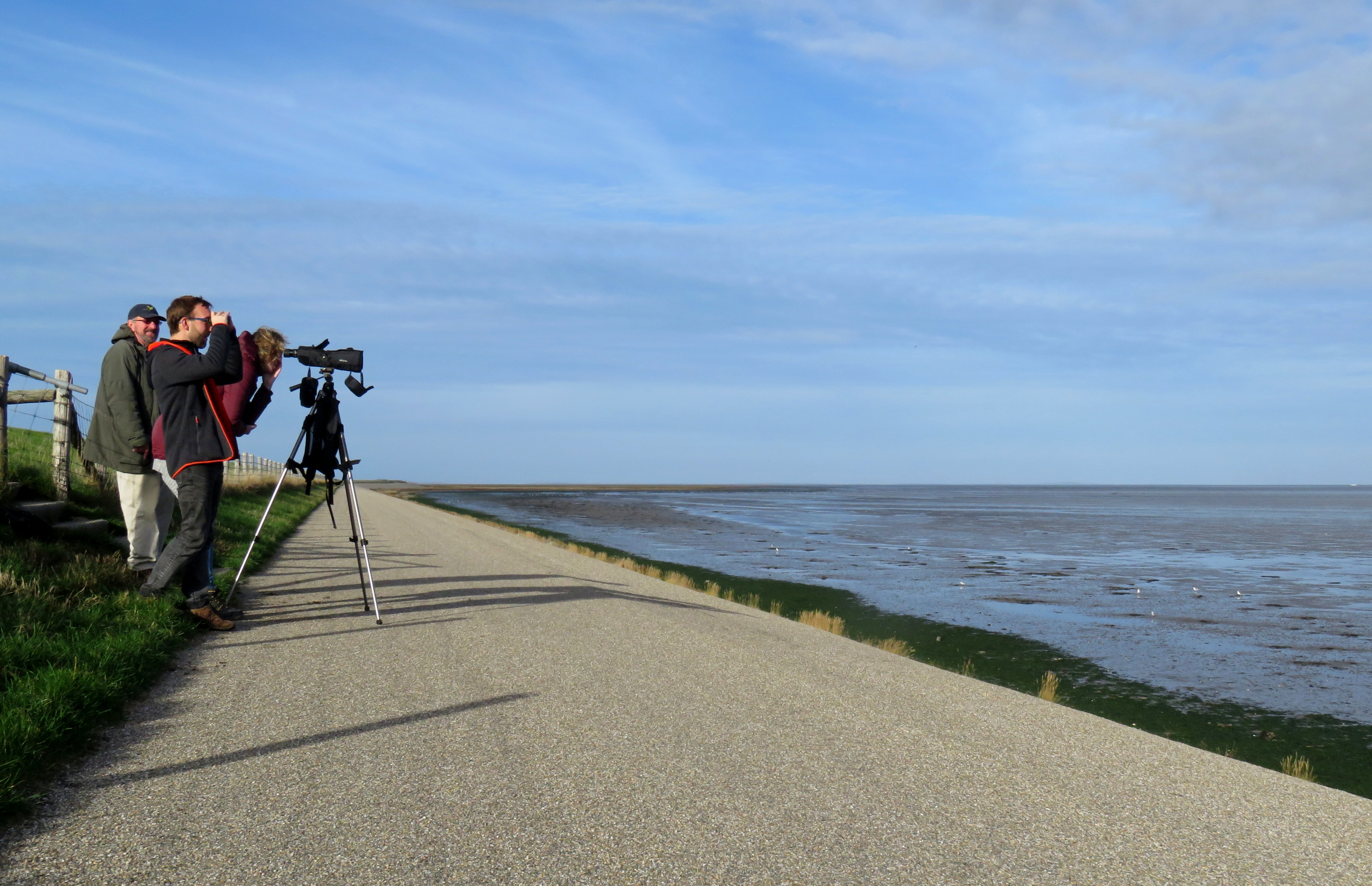 Birdwatching on Texel (NL). De Schorren seen from the dike near the Stuifweg